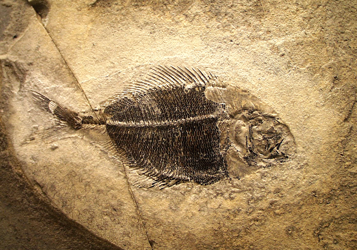 Fossil fish found at Fur, and now a part of the exhibition at Fur Museum, Denmark